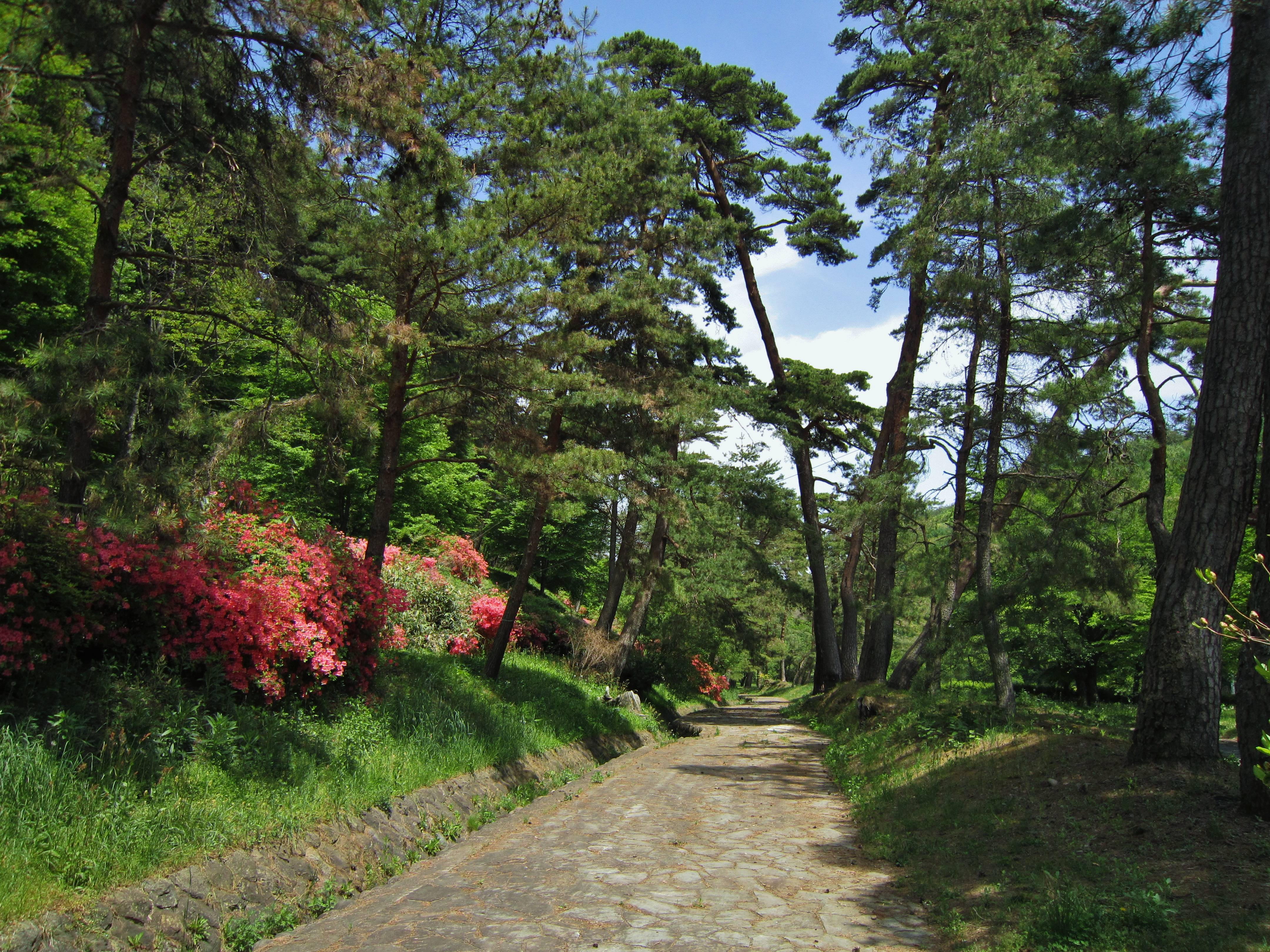 Nakasendō Kasatori Pass Avenue of pines (Ashida - Nagakubo).